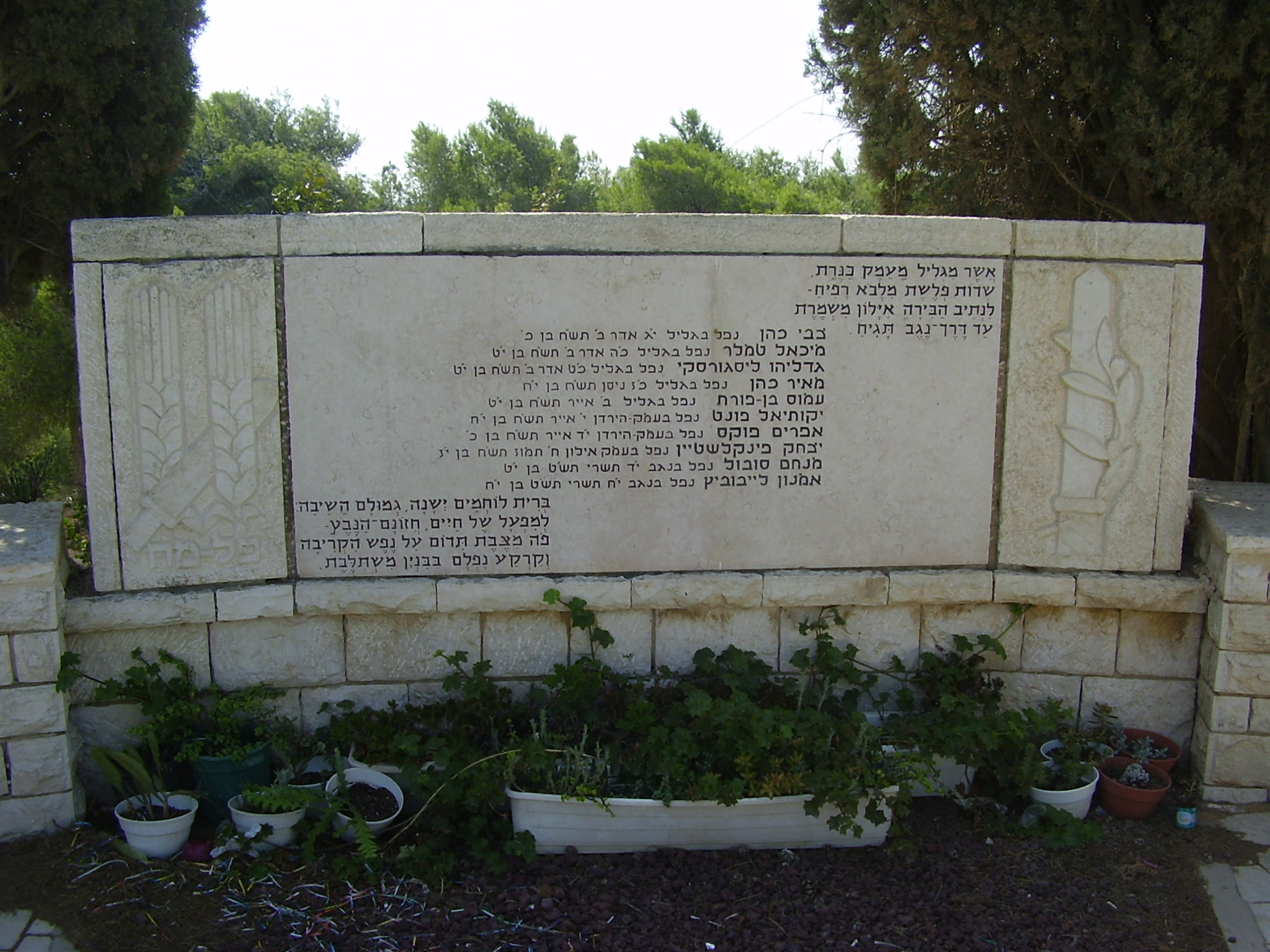 war memorial in kibbutz erez אנדרטת הנצחה בקיבוץ ארז